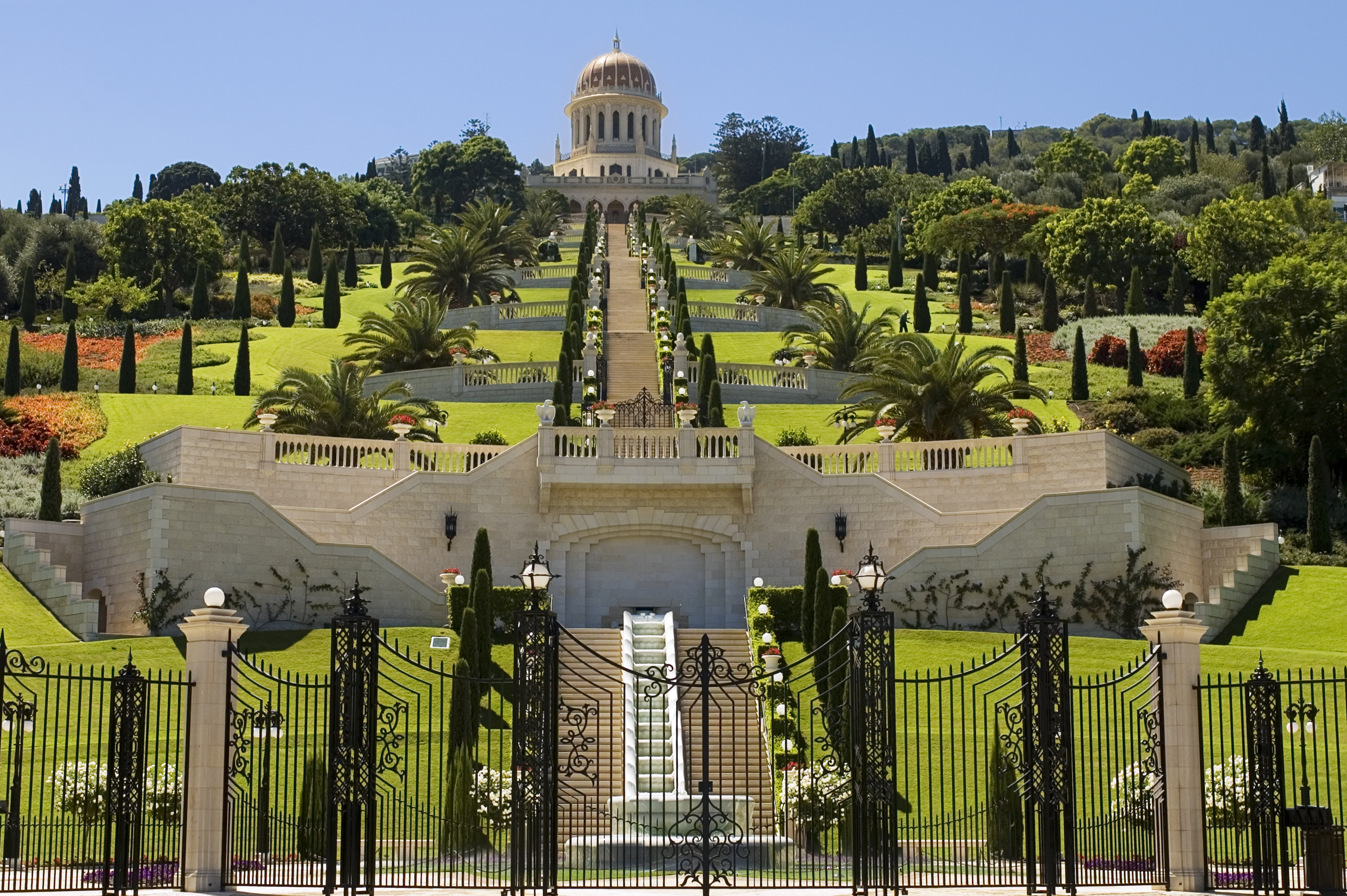 Bahai's Garden in Haifa, Israel.